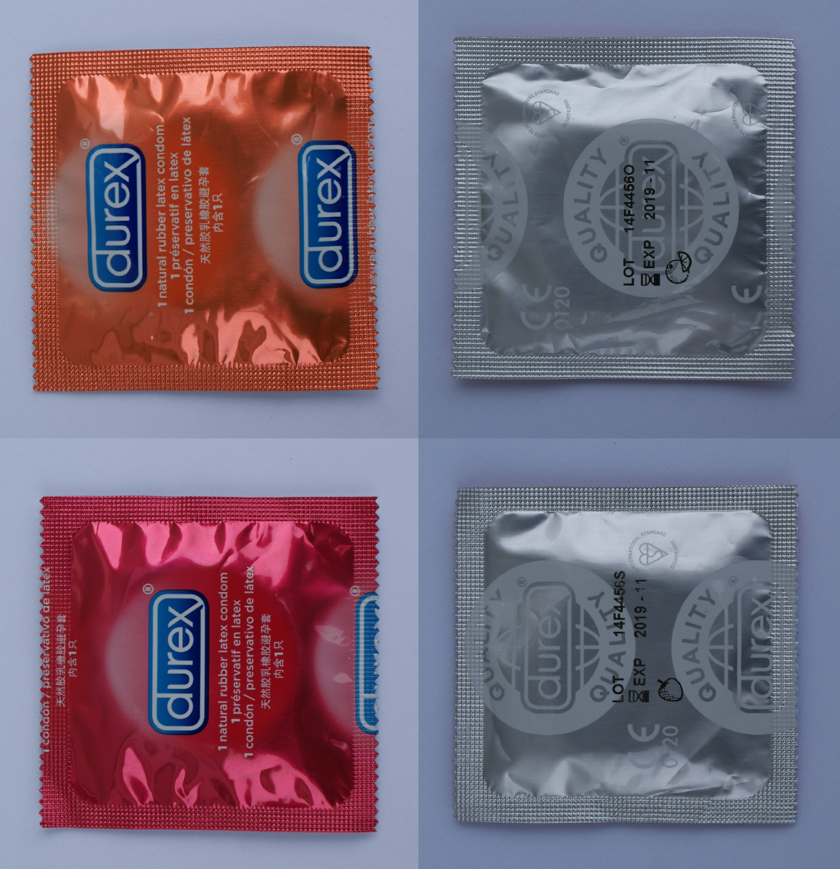 Packages of Durex